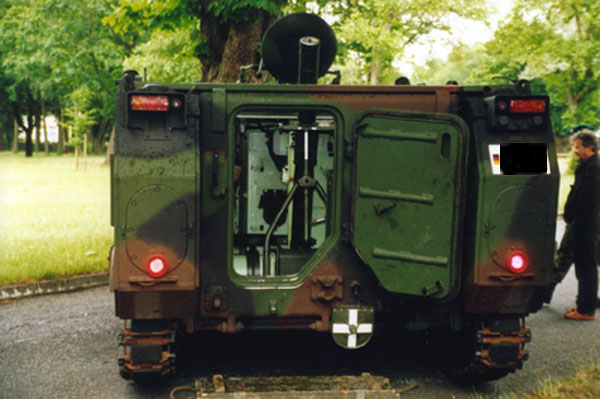 M113 mortar carrier 120 mm